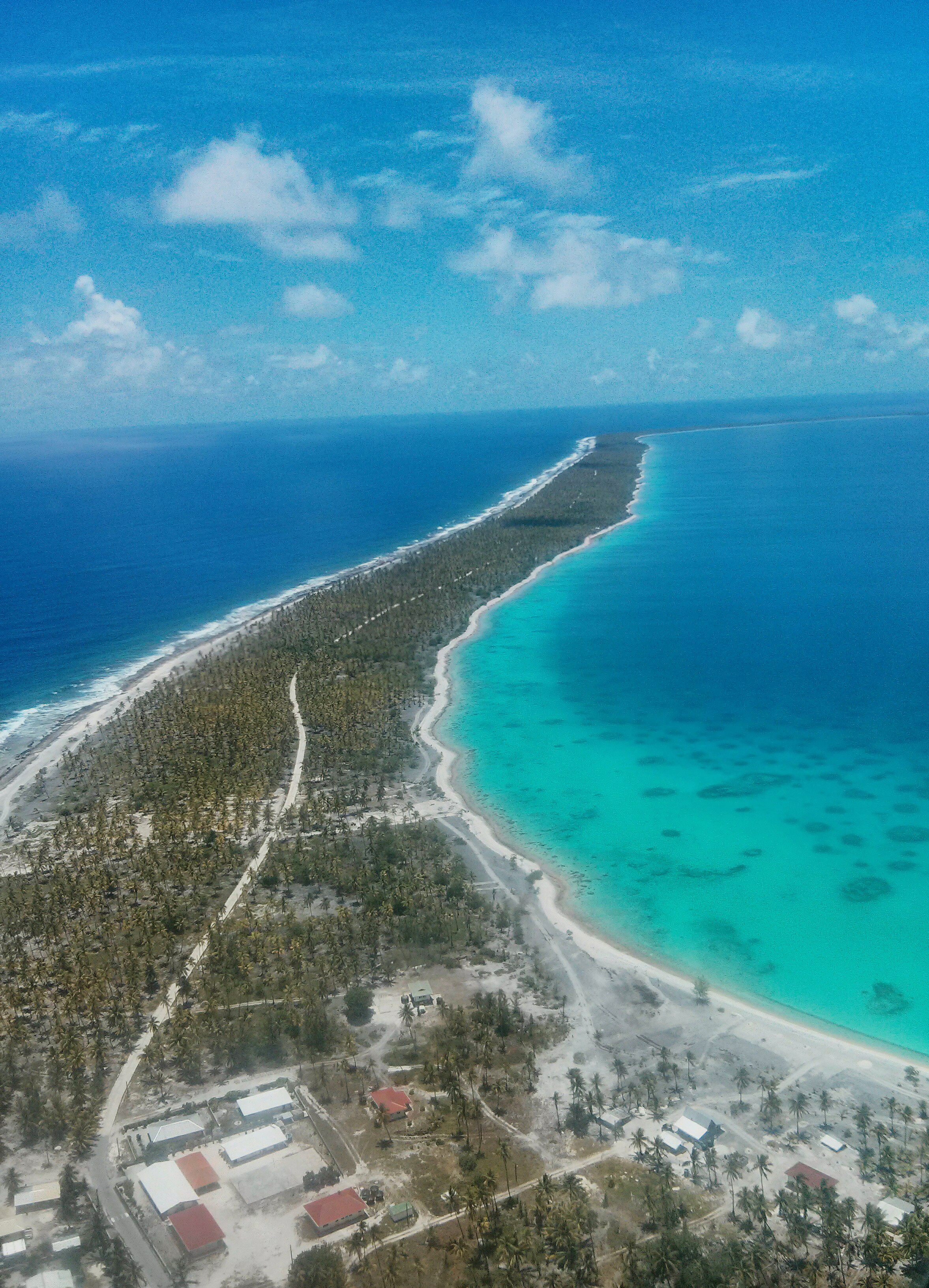 Overview of Tureia on December 31 2013.